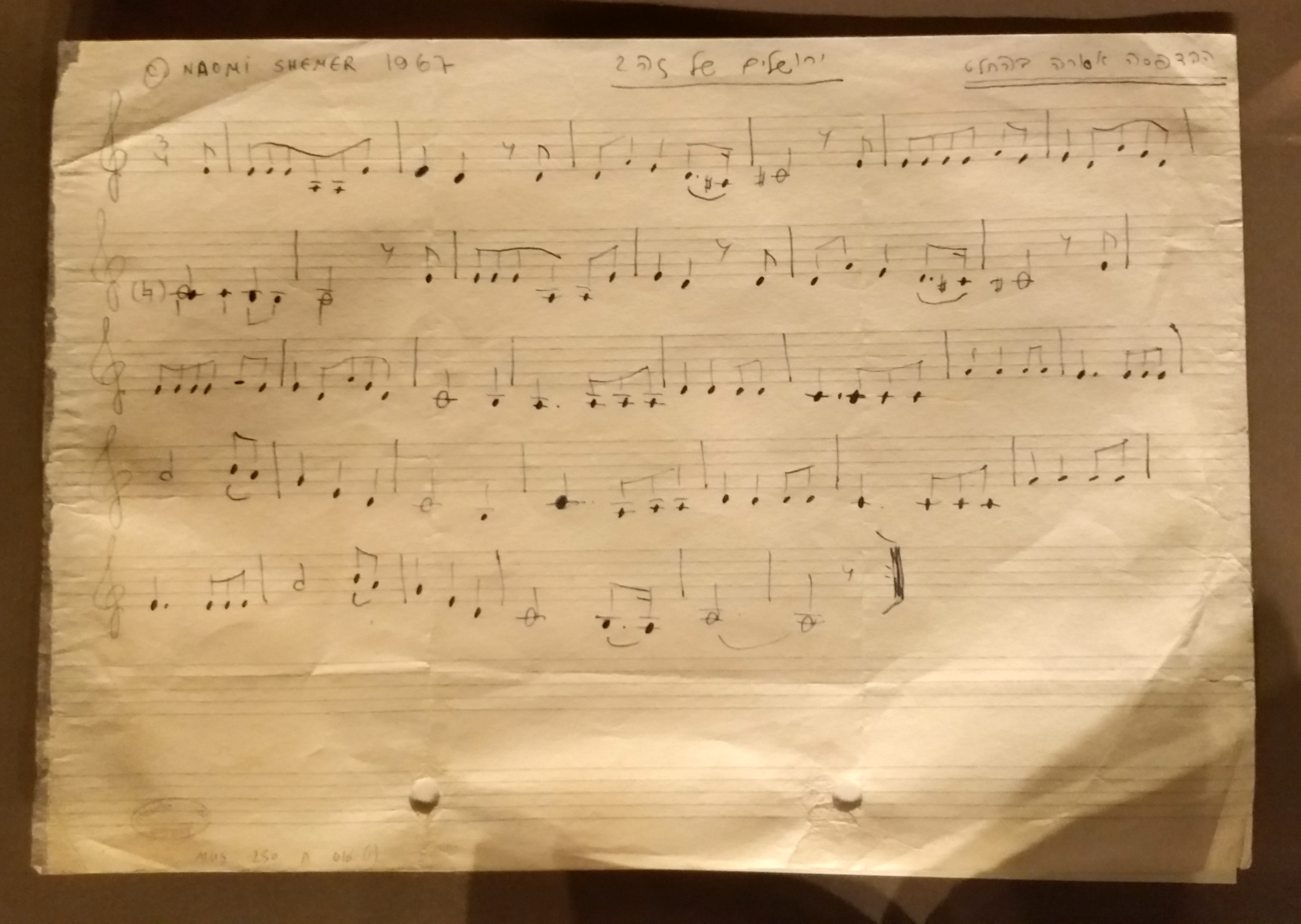 Characters of "Jerusalem of Gold" handwritten by the composer Naomi Shemer (Tel Aviv. 1967), displayed at the National Library in Jerusalem, Givat Ram